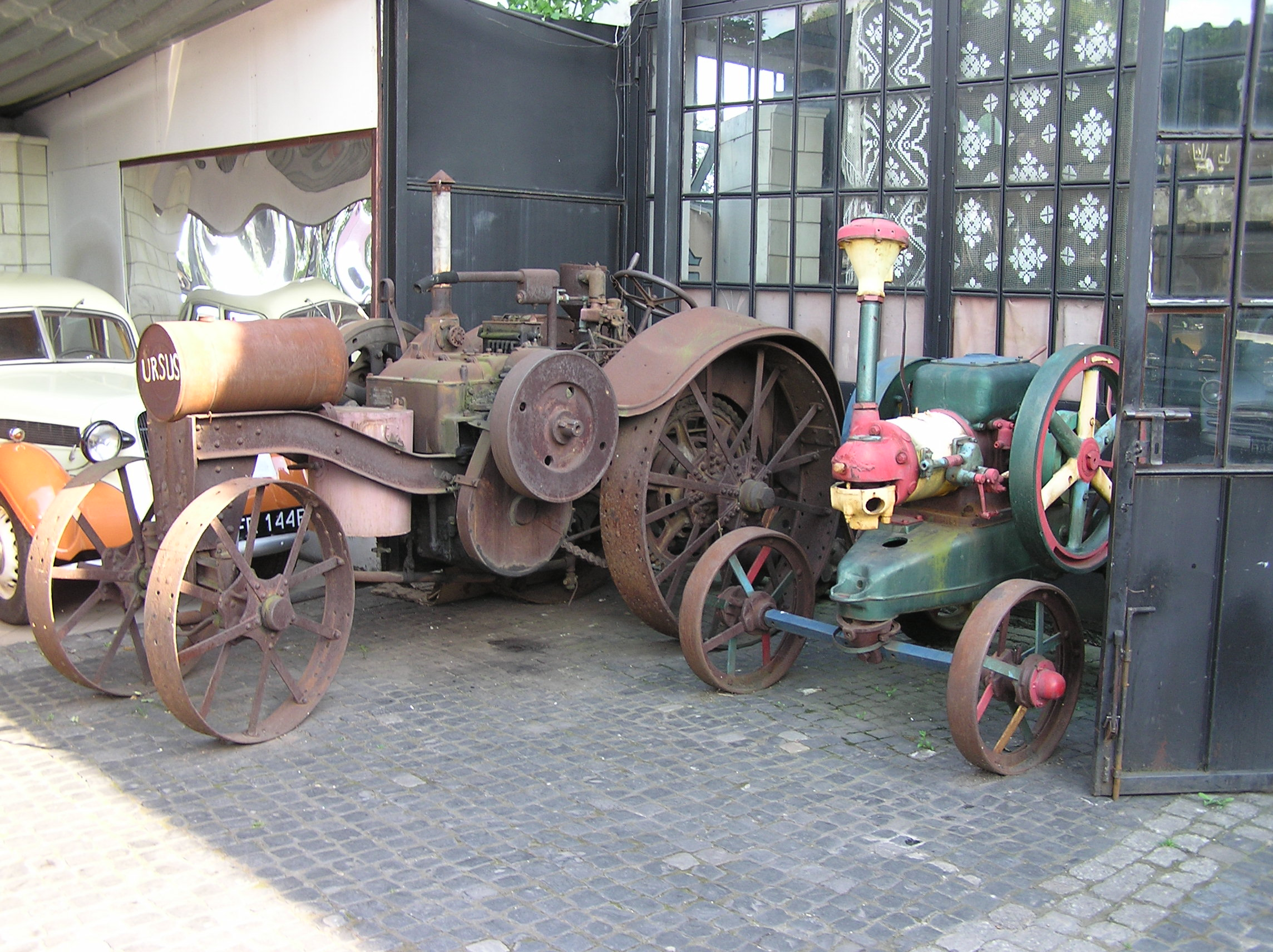 Titan Engine tractor in Otrębusy Museum near Warsaw (older unknown made locomobile on the right)